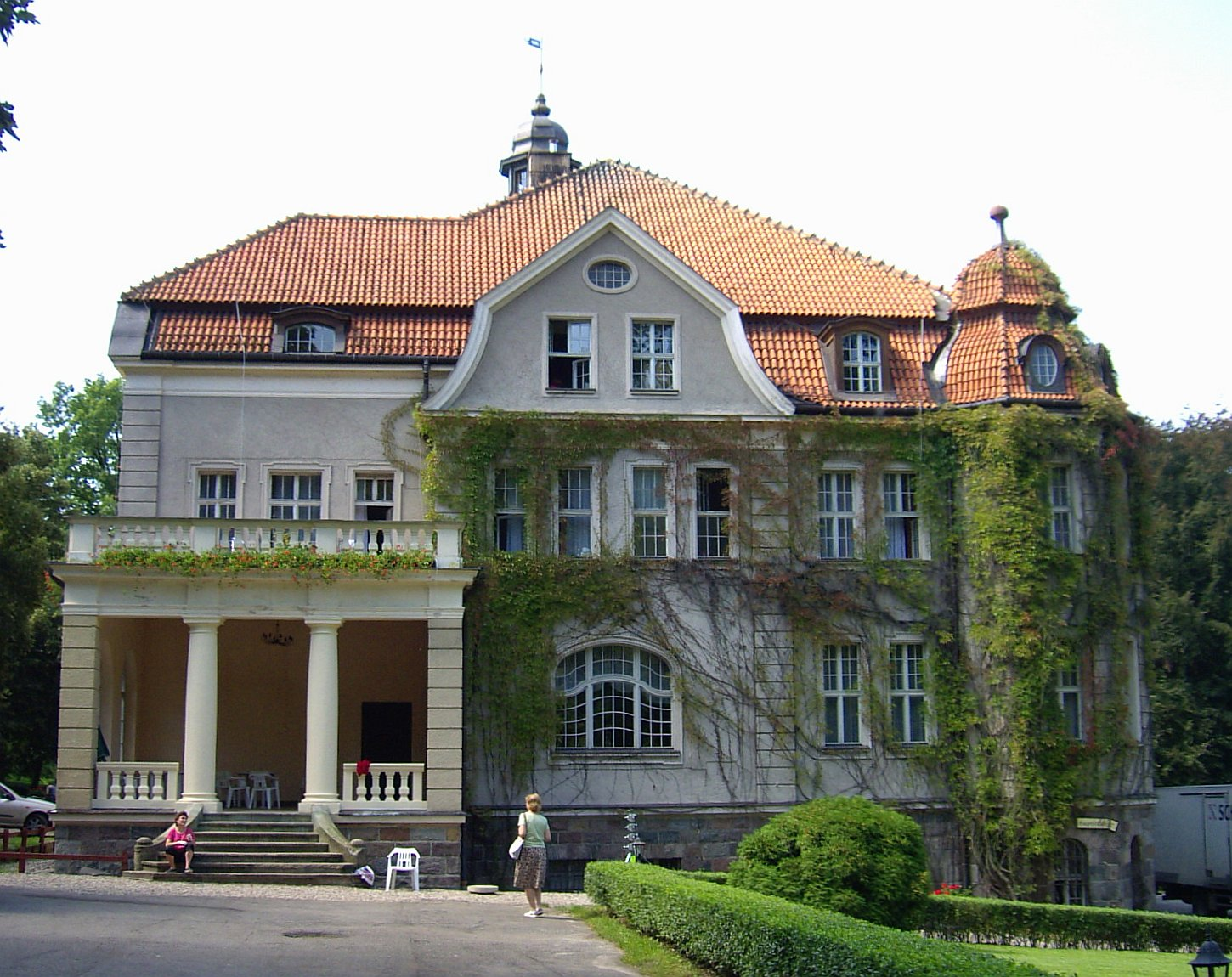 Palace in Łężany, eastern facade